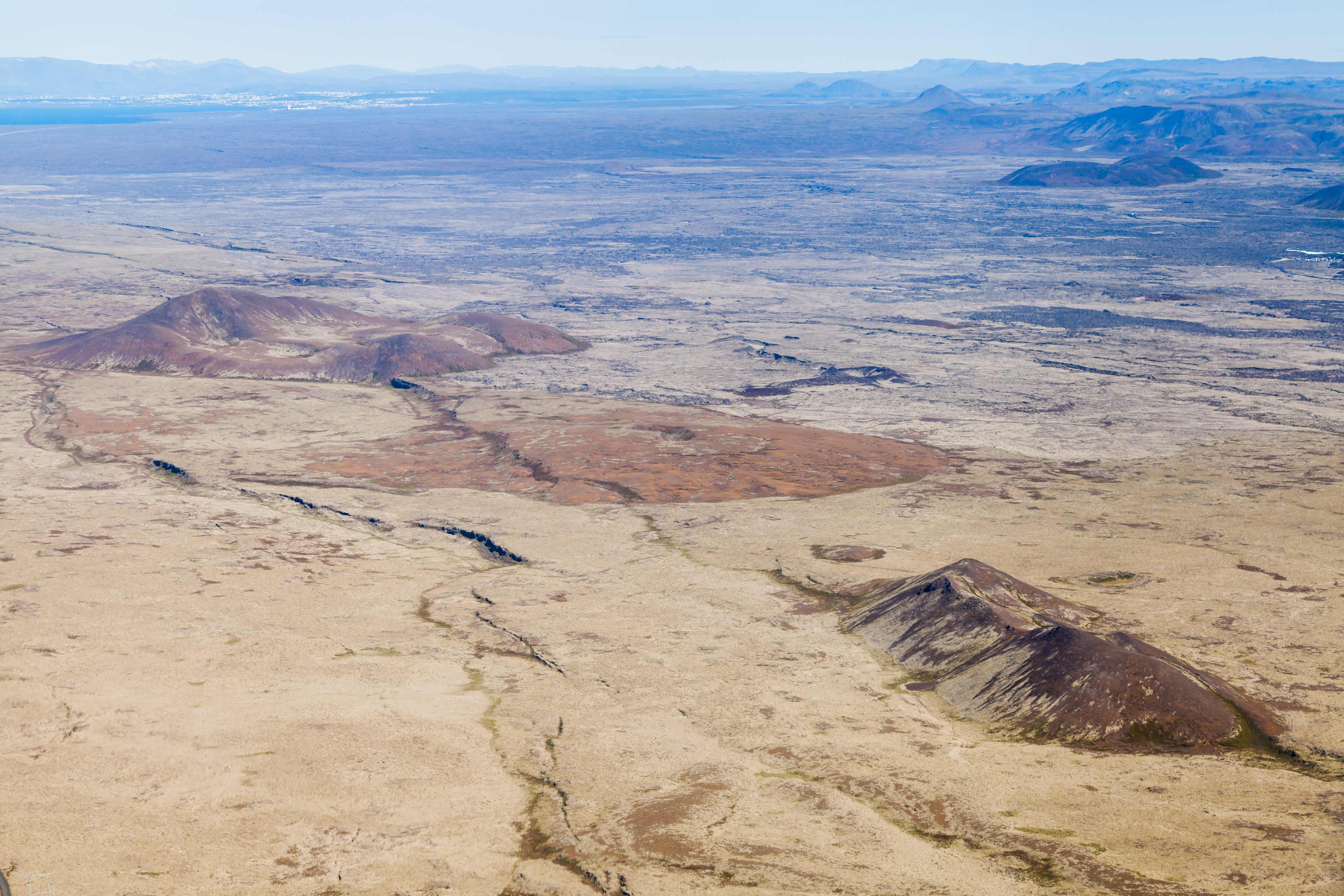 Aerial view of the Southwest of Iceland